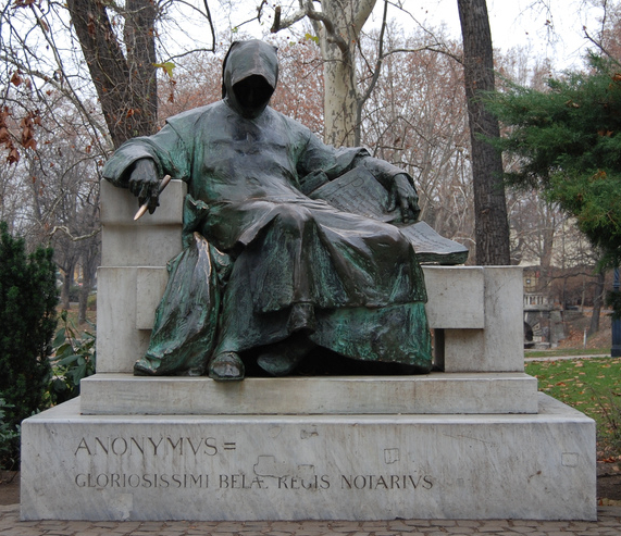 Statue of the Anonymous Chronicler in the grounds of the Vajdahunyad Castle in the City Park, Budapest, Hungary